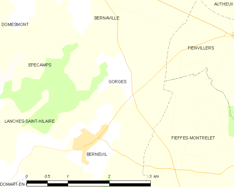 Map of French municipality Gorges